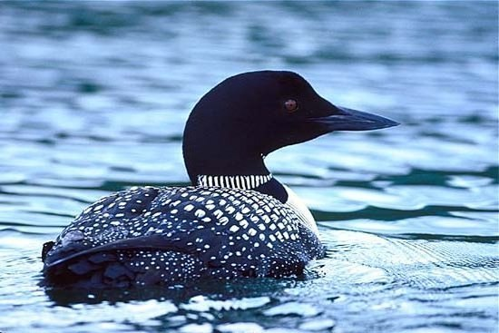 A Great Northern Loon (also known as Great Northern Diver or Common Loon ) swimming on Paudash Lake, Haliburton County, Ontario, Canada.